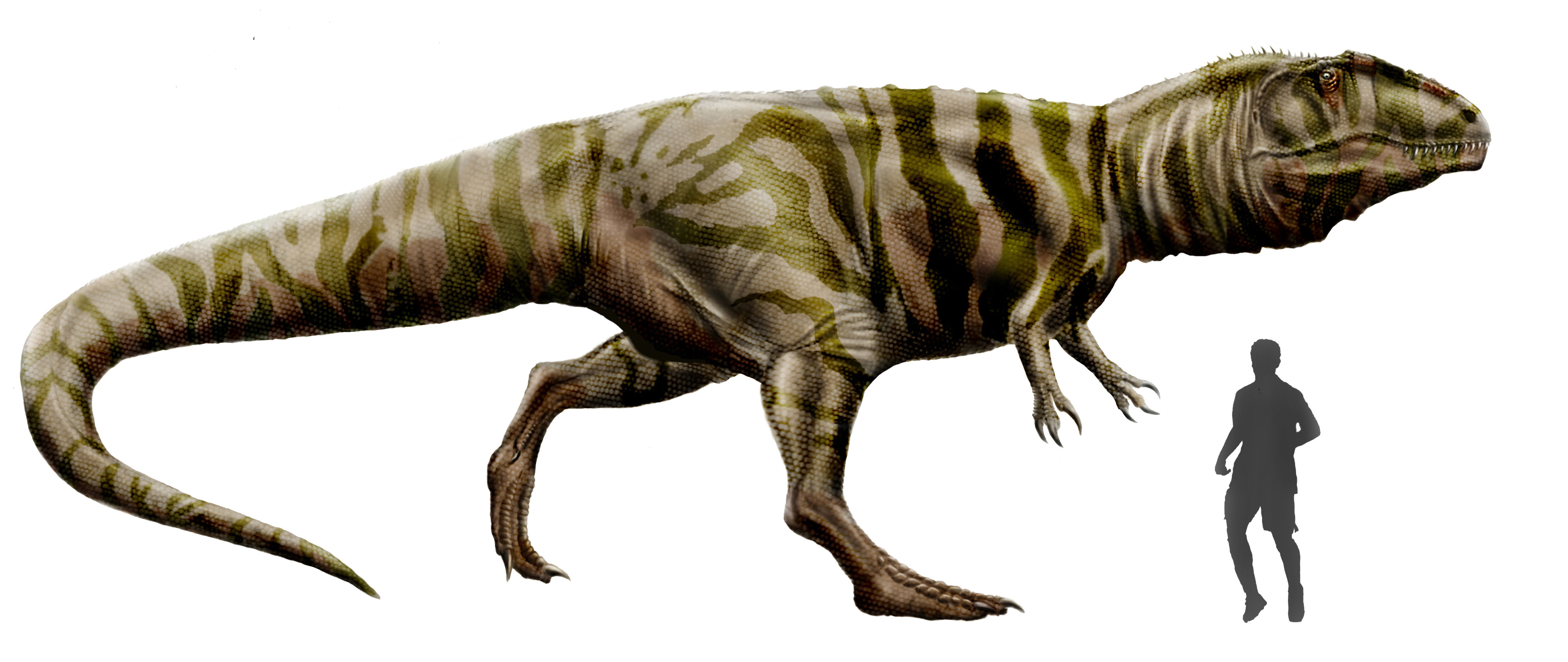 Illustration of the carcharodontosaurid Giganotosaurus carolinii with a human silhouette for size comparison. The proportions of the illustration have been modified to match those of the skeletal diagrams by palaeontologists Gregory S. Paul (The Princeton Field Guide to Dinosaurs, 2010, p. 98) and Scott Hartman[1].